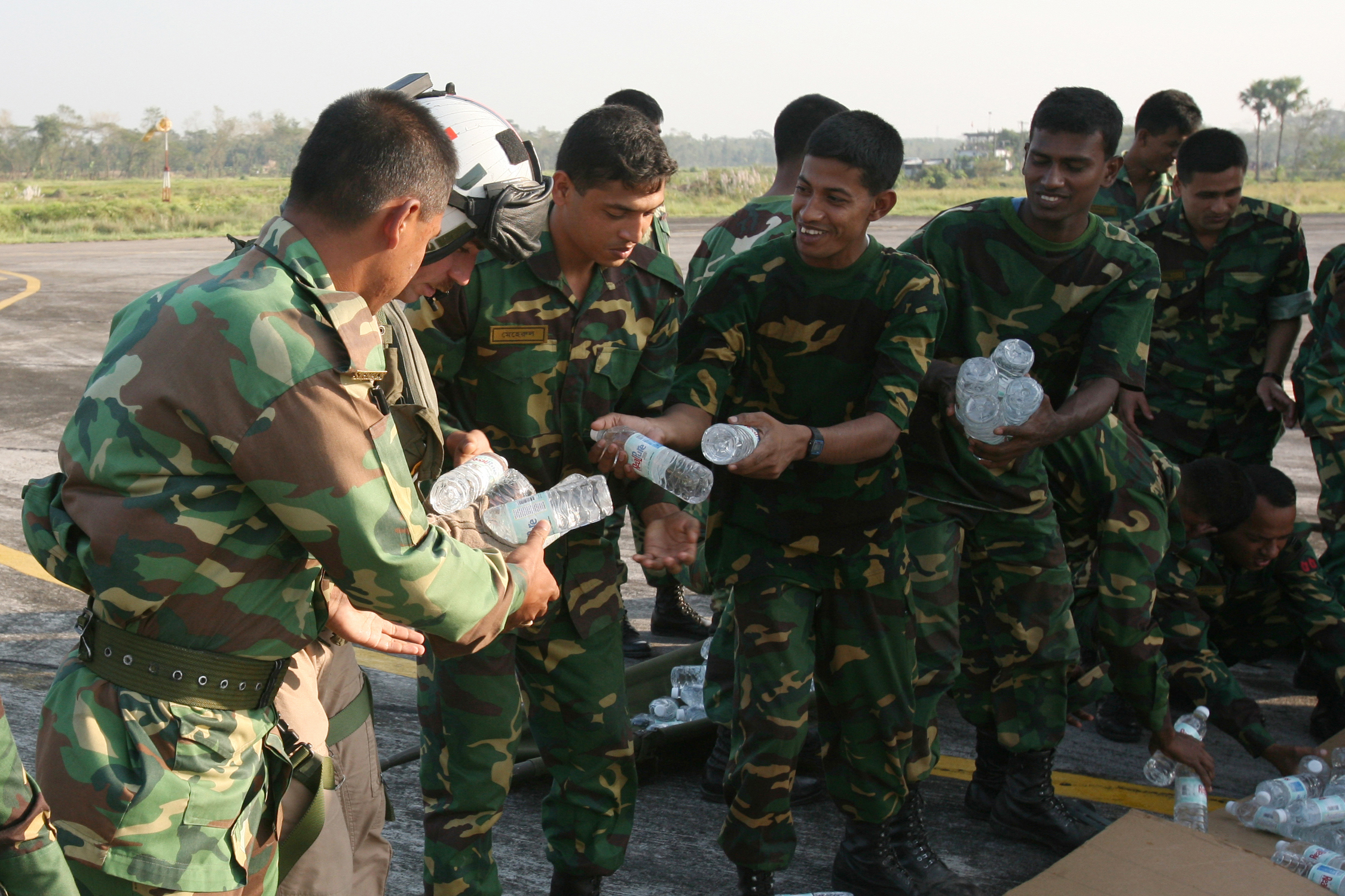 BARISAL, Bangladesh (Nov. 23, 2007) Bangladeshi soldiers unload a shipment of bottled water delivered by Marines of Marine Medium Helicopter Squadron (HMM) 261, the aviation element of the 22nd Marine Expeditionary Unit (MEU). This mission marked the first U.S. military aid arriving in Bangladesh. The amphibious assault ship USS Kearsarge (LHD 3) and the 22nd MEU are supporting relief operations at the request of the government of Bangladesh. U.S. Marine Corps photo by Cpl. Peter R. Miller (RELEASED)